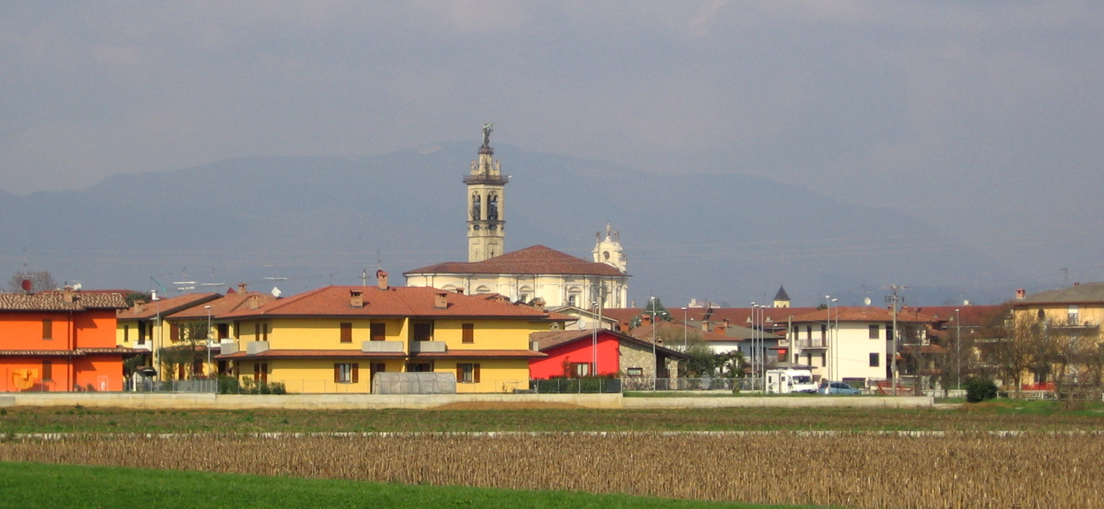 View of Calcinate, Bergamo, Italy